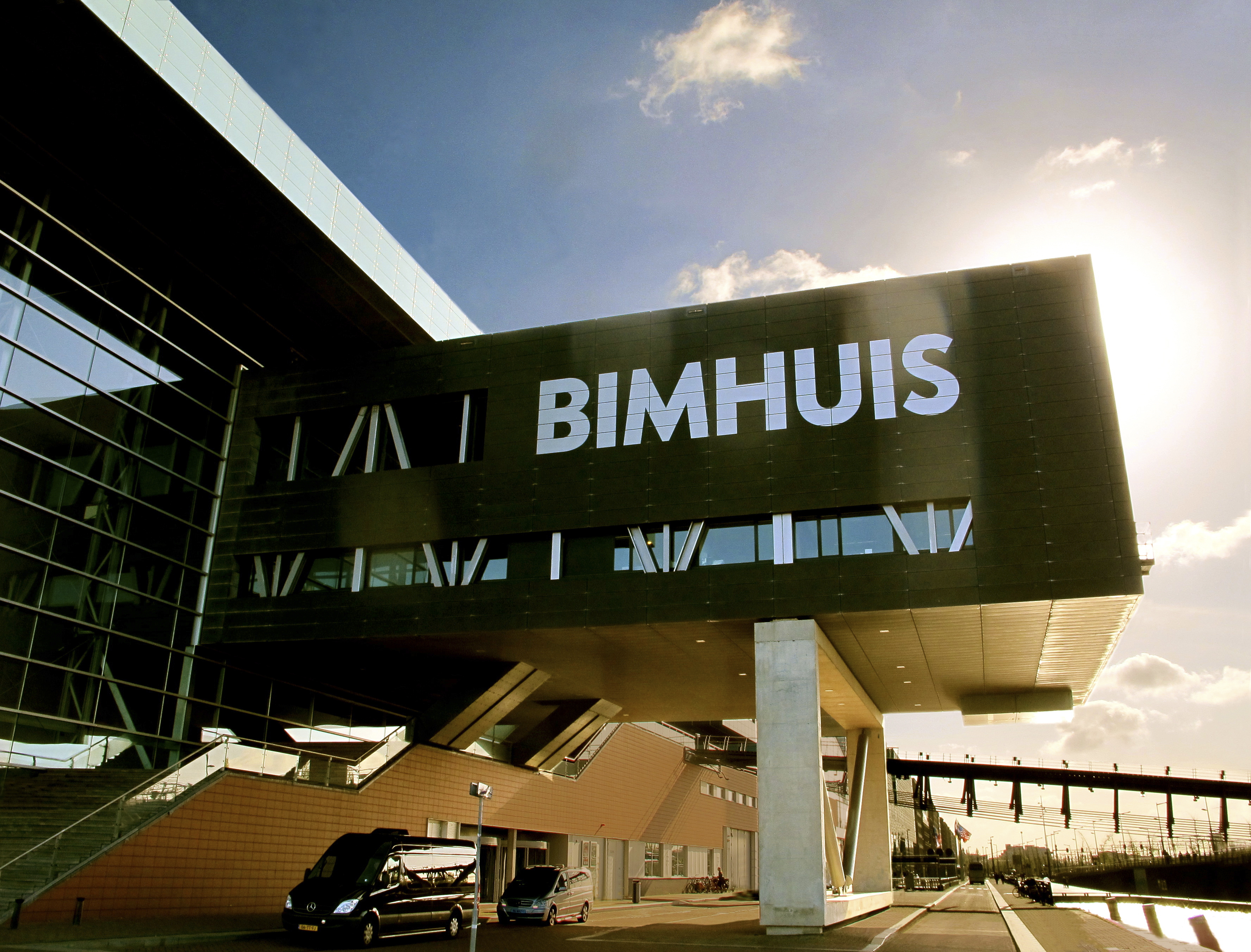 Bimhuis in Amsterdam